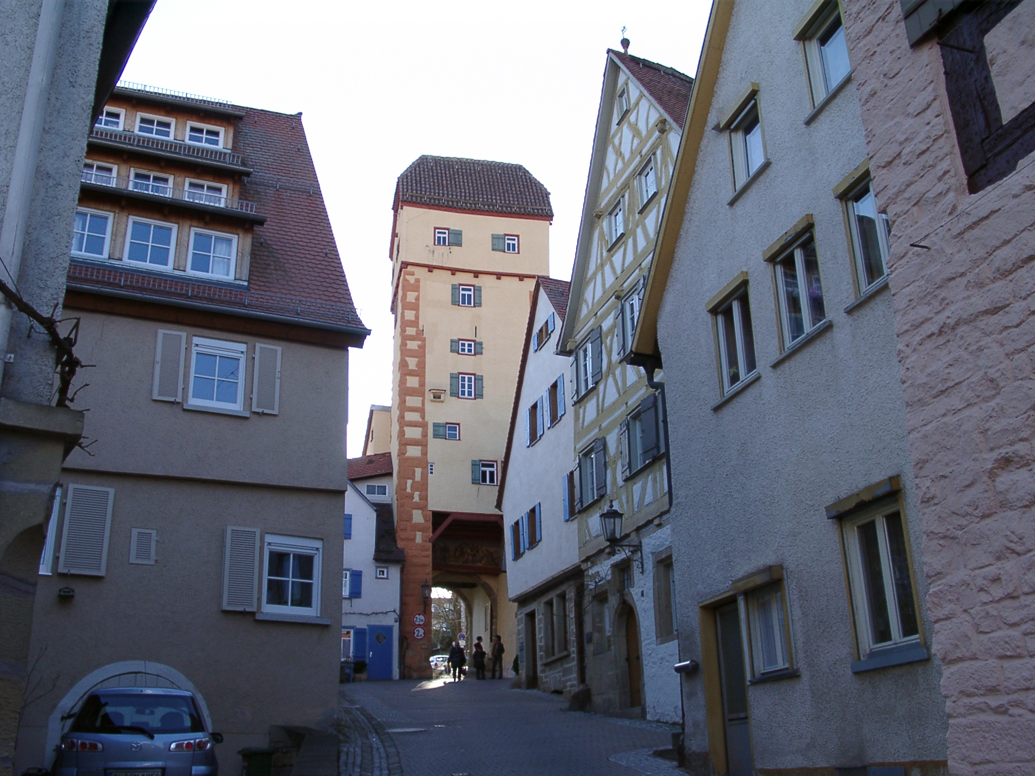 Kalkweiler Gate in Rottenburg am Neckar, District of Tübingen, State of Baden-Württemberg, Germany. West gate in the town wall. Point of view: Towards outside of the town wall (photo taken inside of the town wall).